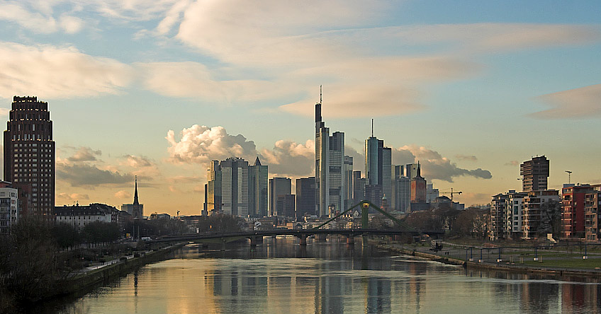 Frankfurt/Main (Germany) Skyline Source: Stephan Wolfram (DeDonatis, 02. Jan 2006 (CEST))